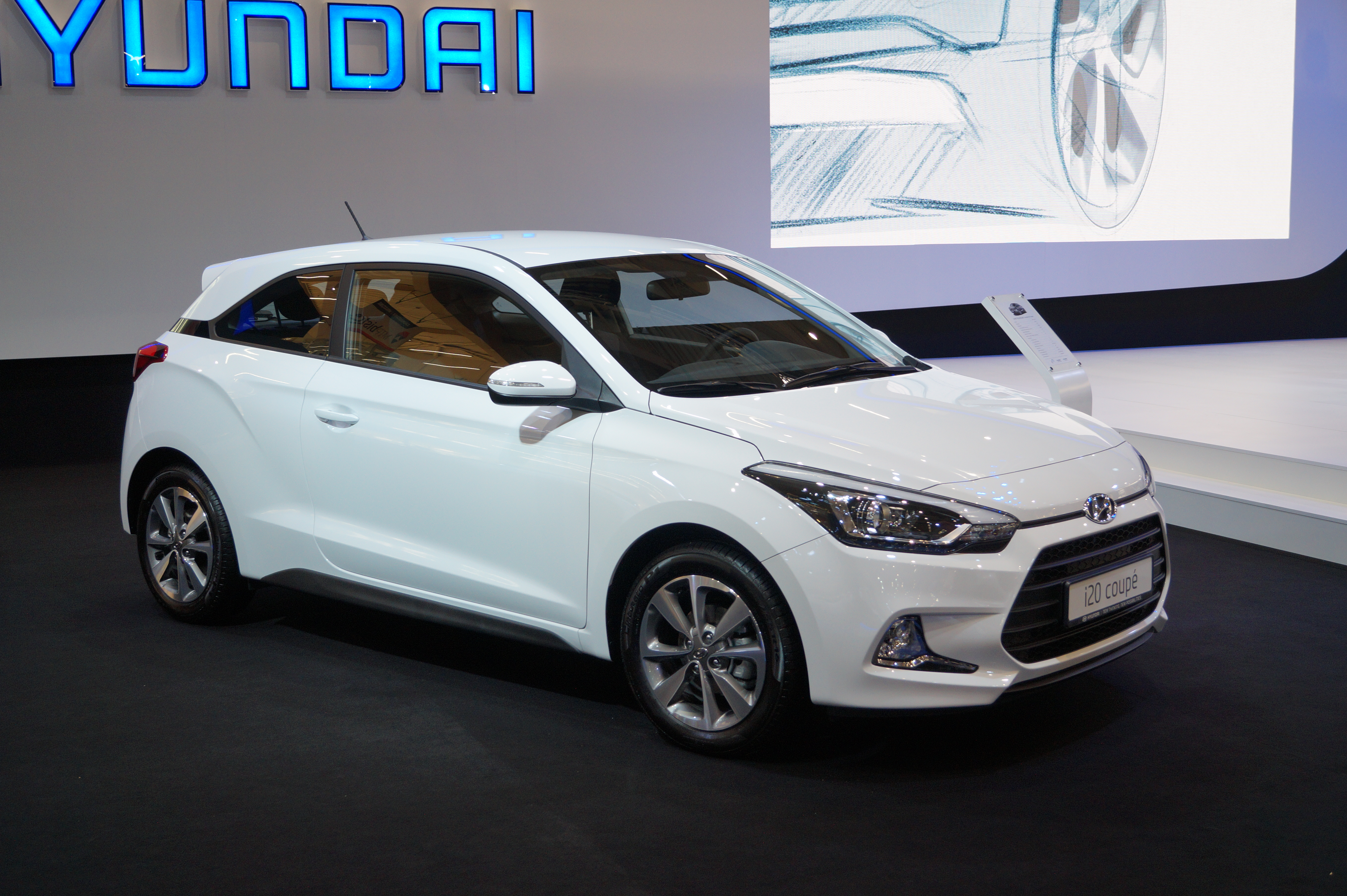 The making of this document was supported by Wikimedia Polska Association, within Wikigrant no. WG 2015-19. Hyundai i20 na Motor Show Poznań 2015